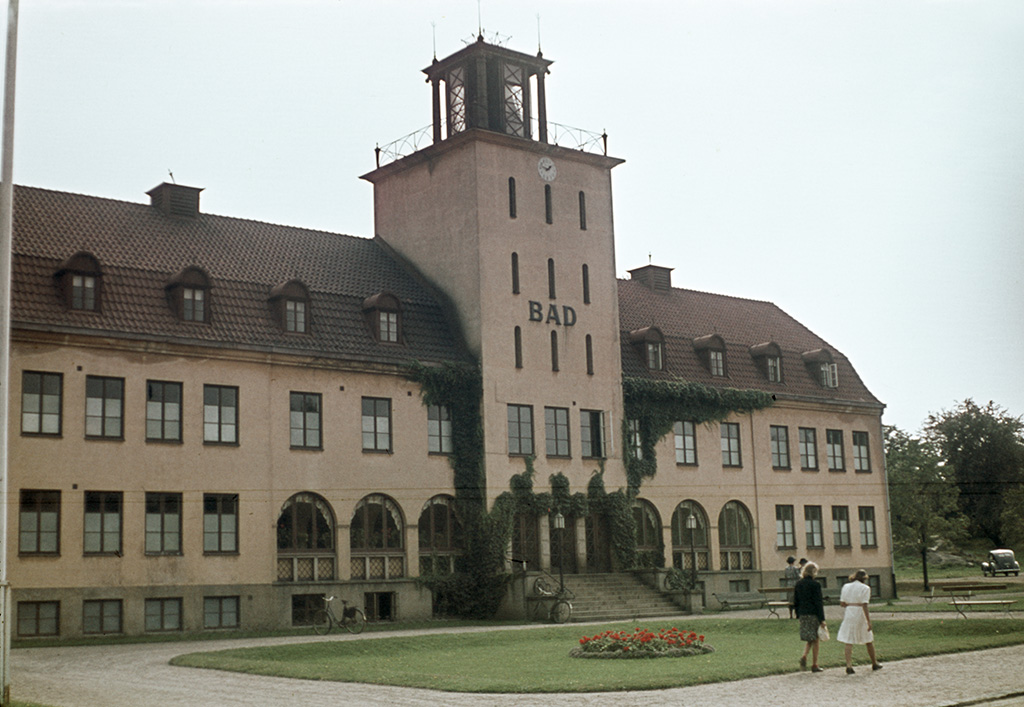 Varberg indoor Baths, built in 1925. Varmbadhuset i Varberg, byggt 1925. Parish (socken): Varberg Province (landskap): Halland Municipality (kommun): Varberg County (län): Halland Photograph by: Fredrik Bruno Date: 1943 Format: Colour slide Persistent URL: Read more about the photo database (in english)